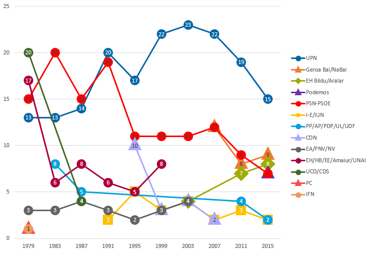 Seat evolution graph for Parlamento de Navarra.